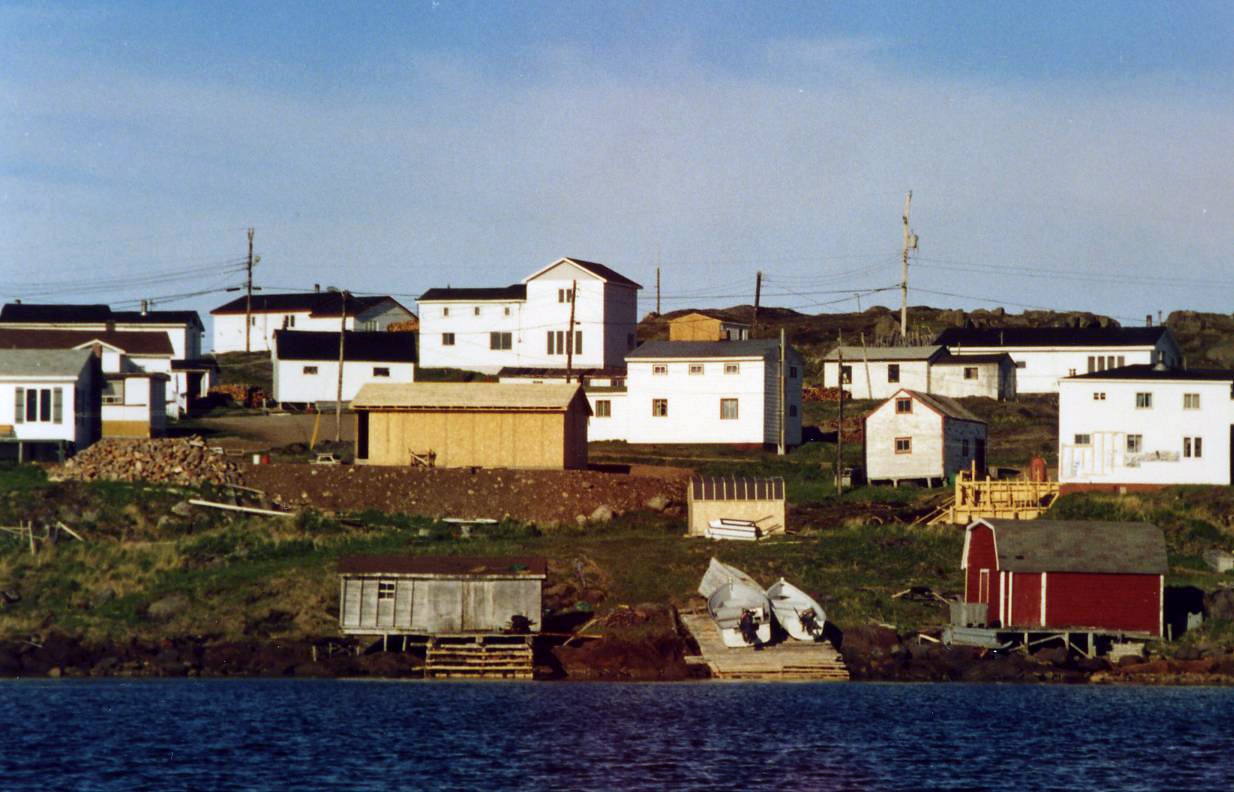 The village of Red Bay, Newfoundland and Labrador, as seen from the harbor. #